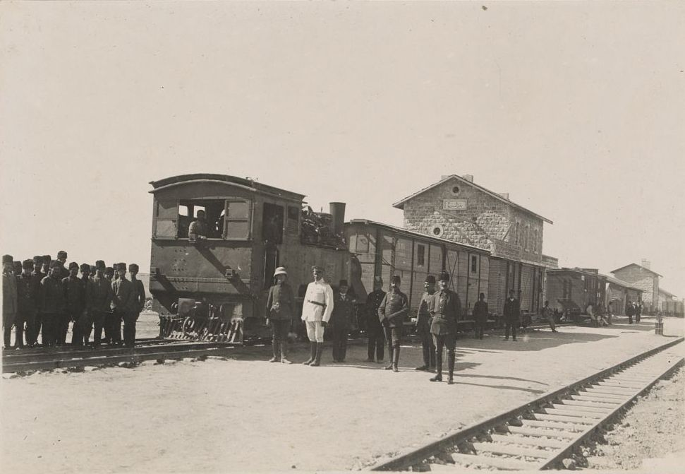 Railroad Station, Beersheba, 1917